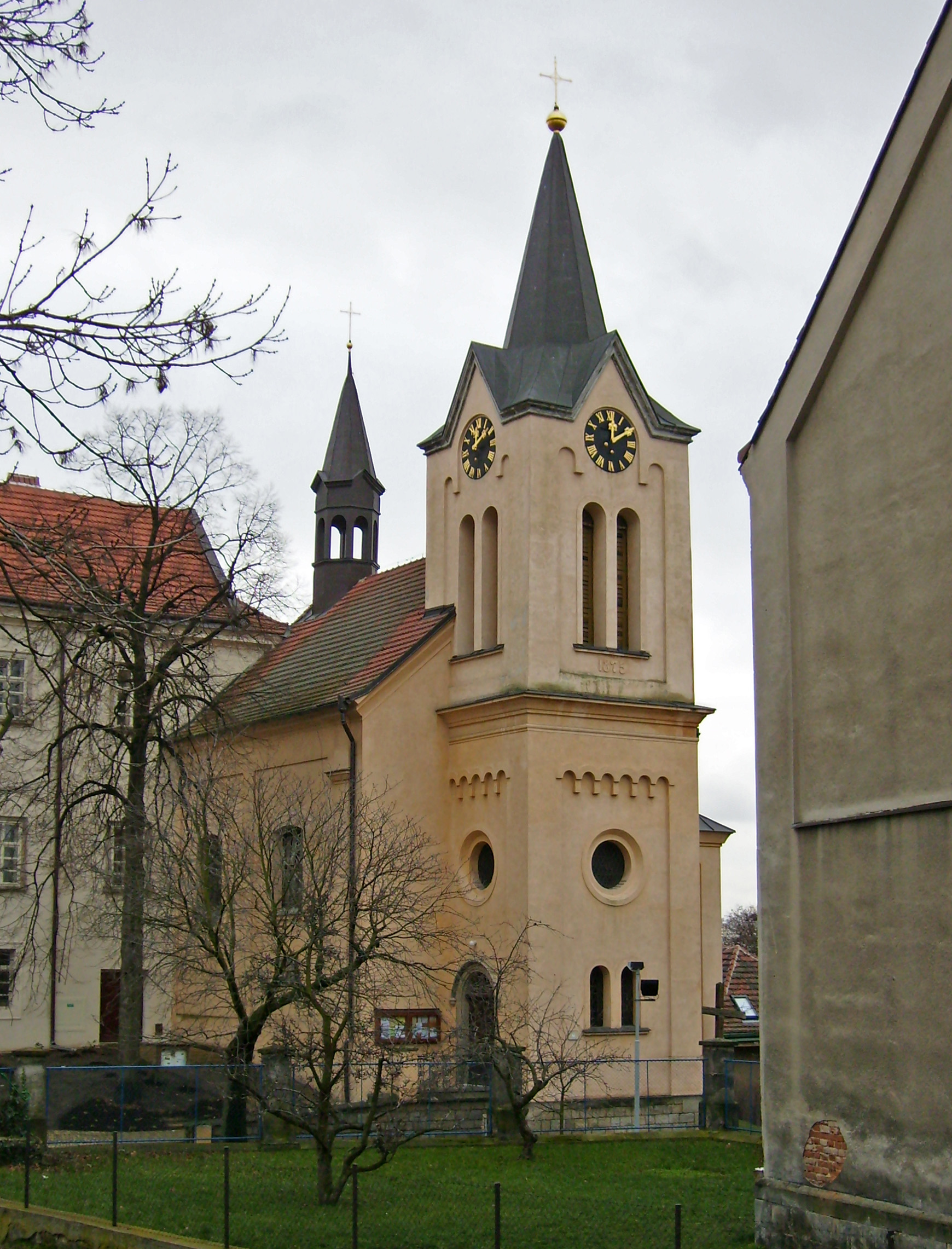 St Ludmilla church in Prague-Horní Počernice, Czech Republic.